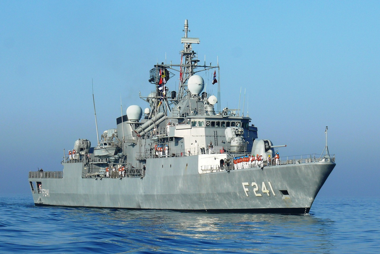 TCG Turgutreis (F-241), Cartagena, May 31, 2010.